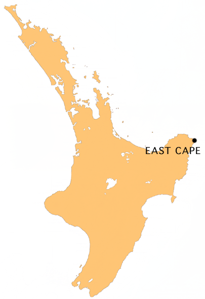 Location map of East Cape, Gisborne, North Island, New Zealand